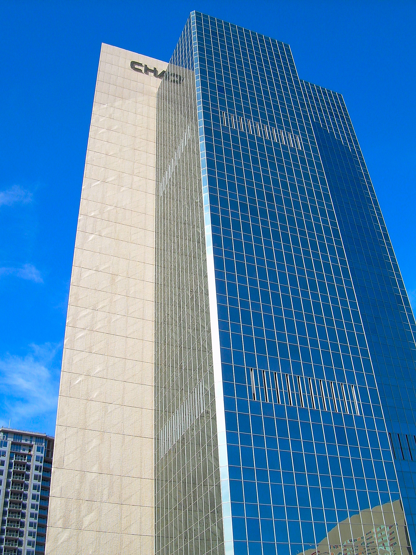 Chase Tower (Phoenix)